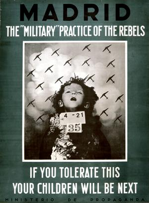 Spanish civil war poster, with the caption "If You Tolerate This Your Children Will Be Next"